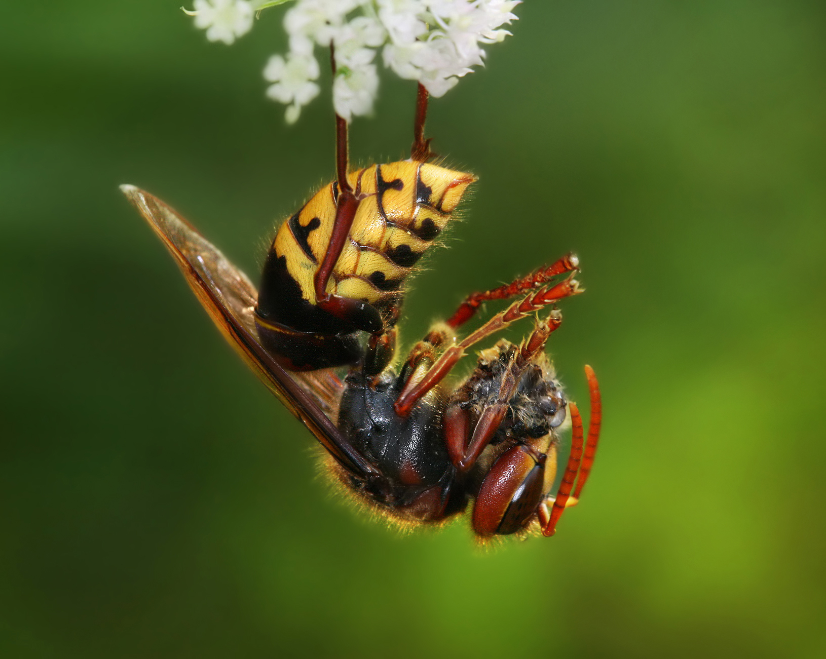 Description: Hornets are the largest eusocial wasps, reaching up to 45 millimetres (1.8 inches) in length. The true hornets make up the genus Vespa, and are distinguished from other vespines by the width of the vertex (part of the head behind the eyes), which is proportionally larger in Vespa; and by the anteriorly rounded gasters (the section of the abdomen behind the wasp waist). See wasp and bee characteristics to help identify an insect. As shown a Vespa crabro germana, where germana describes the colour form.